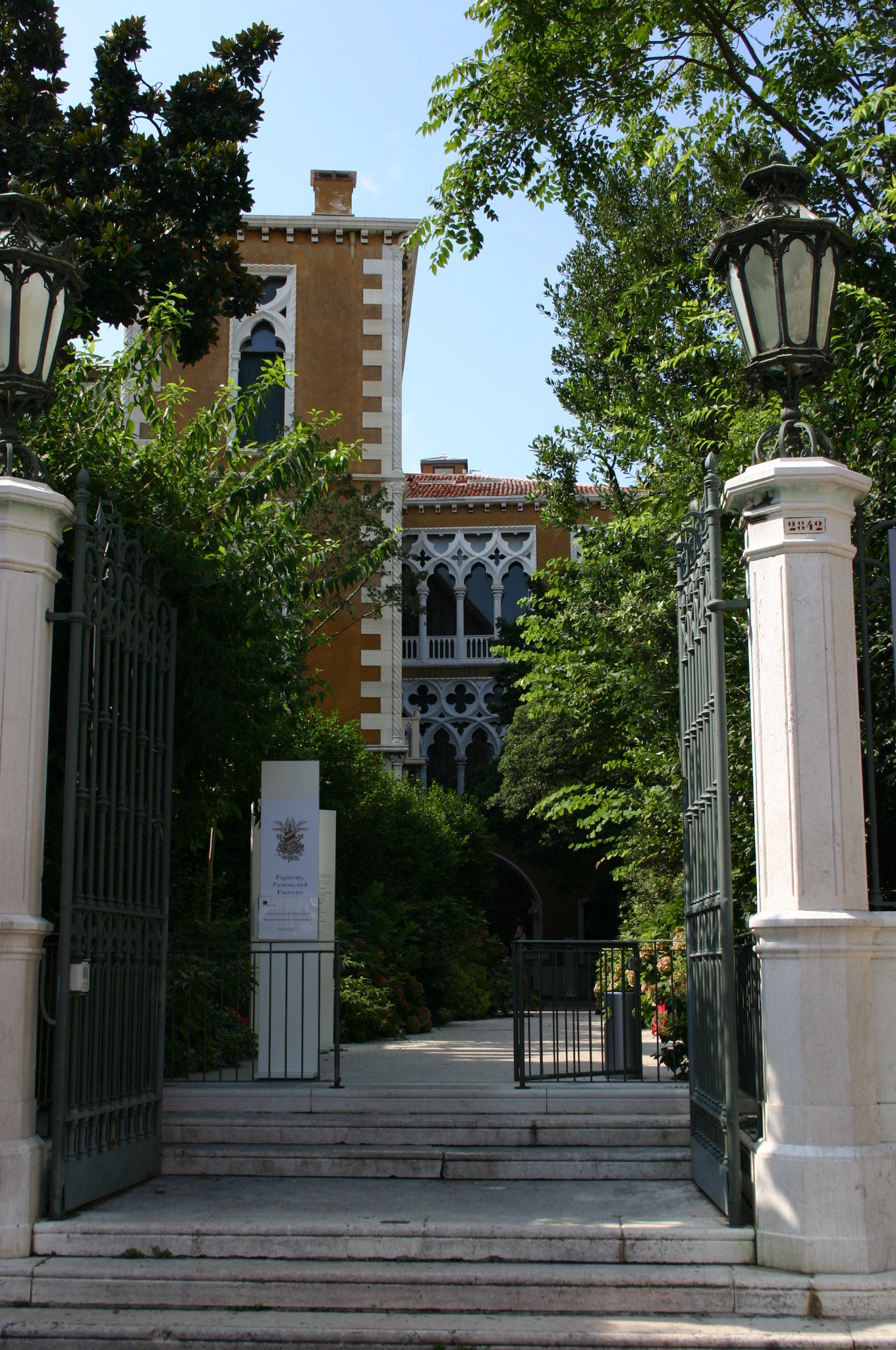 Venice, the entrance to Palazzo Cavalli Franchetti in Campo Santo Stefano square. Picture by Giovanni Dall'Orto, August 12, 2007.